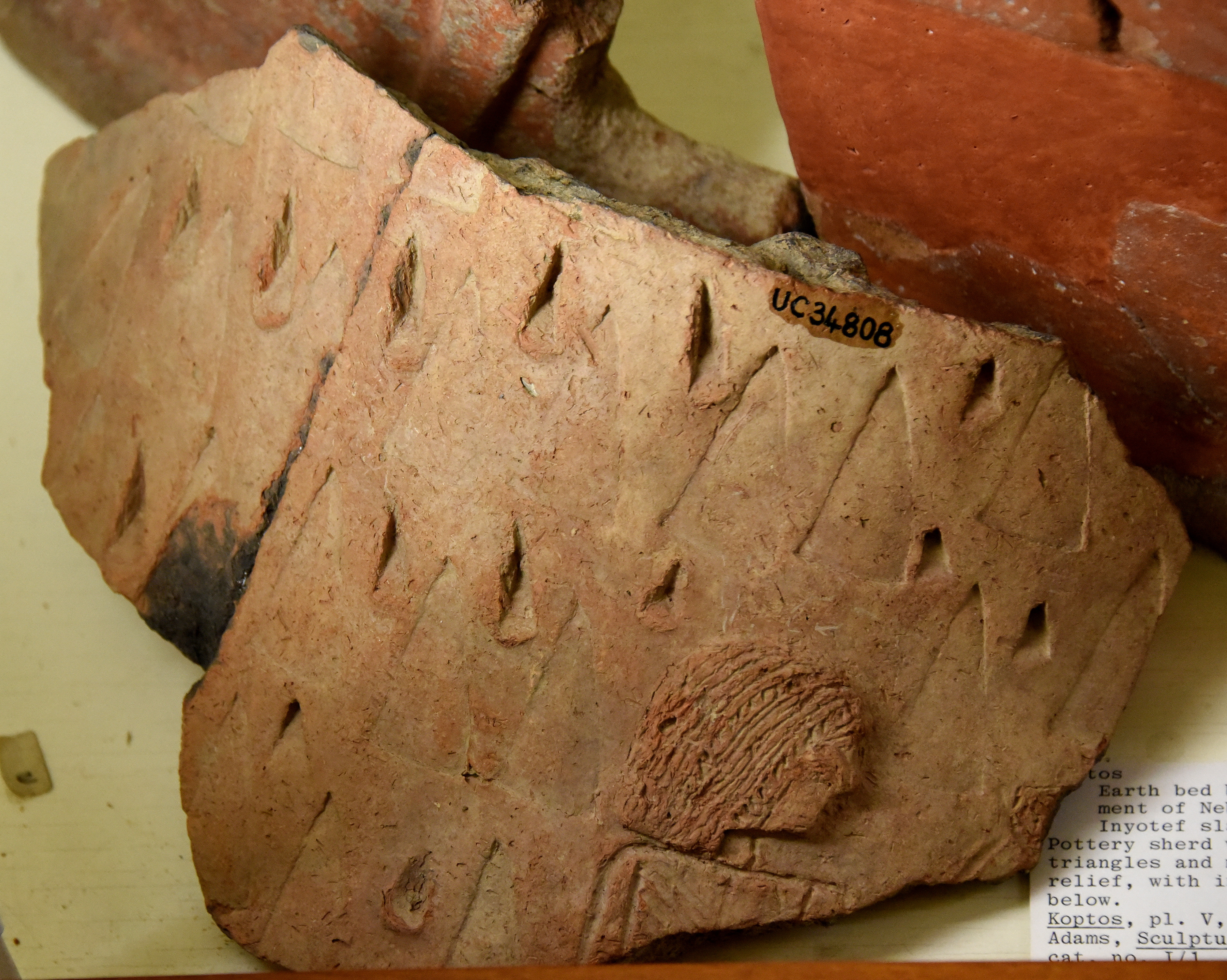 Pottery shred with male head in relief and incised torso. Possibly part of pot stand. Nile silt fabric. 4th Dynasty. From Kopots (Qift), Egypt; earth bed beneath pavement of Nebkheperre Inyotef slabs in temple. The Petrie Museum of Egyptian Archaeology, London. With thanks to the Petrie Museum of Egyptian Archaeology, UCL.